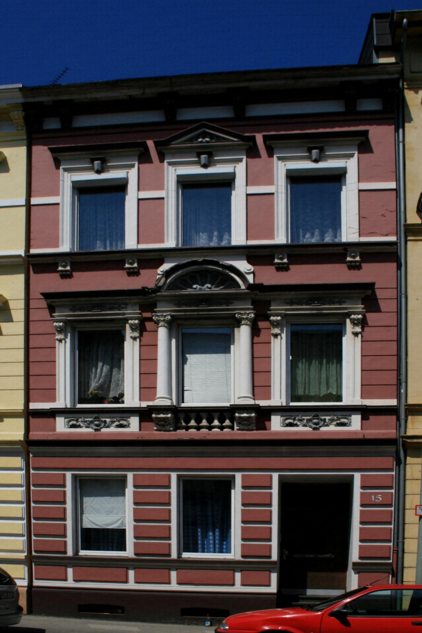 Cultural heritage monument No. F 032 in Mönchengladbach